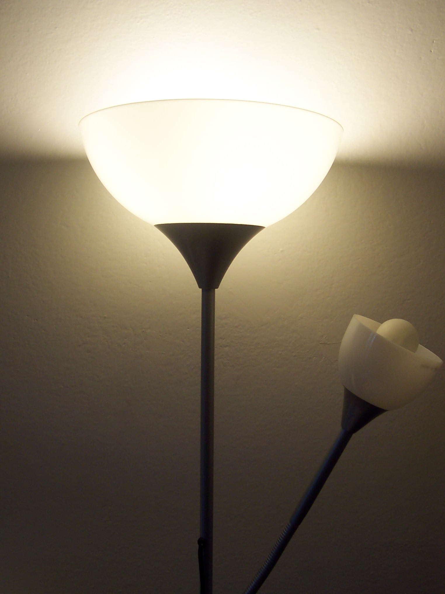 A free-standing lamp